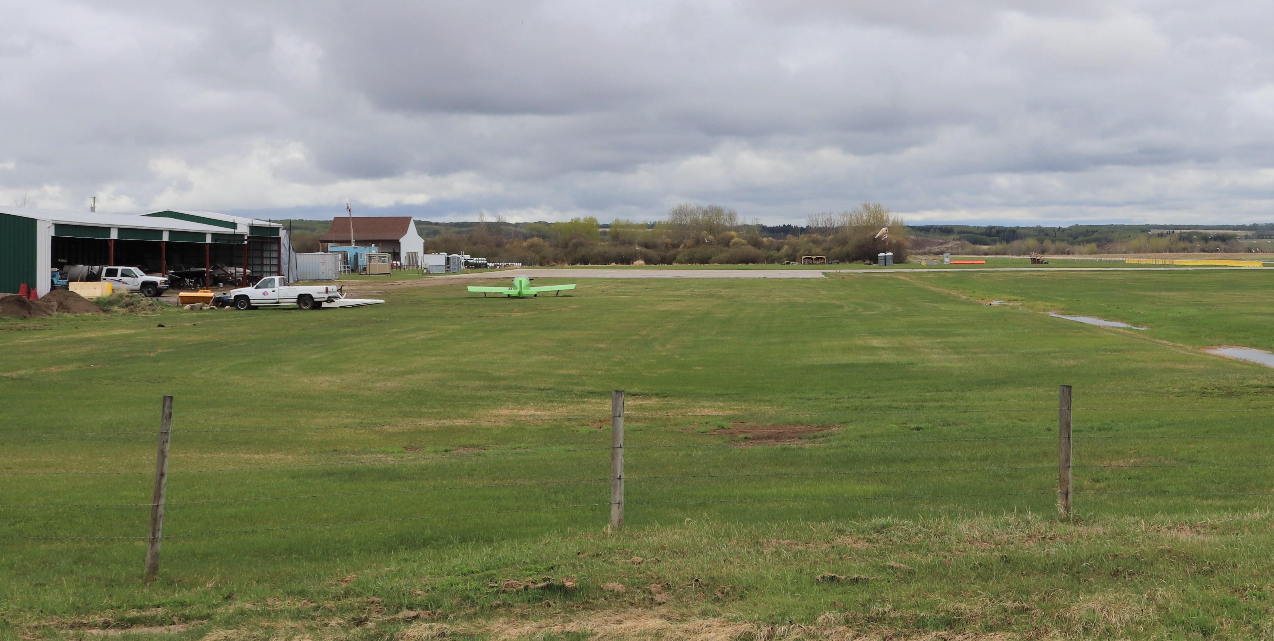 Beaverlodge Airport in May 2019